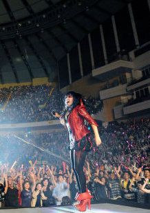 AMEI 2010 WORLD TOUR - Taipei Arena